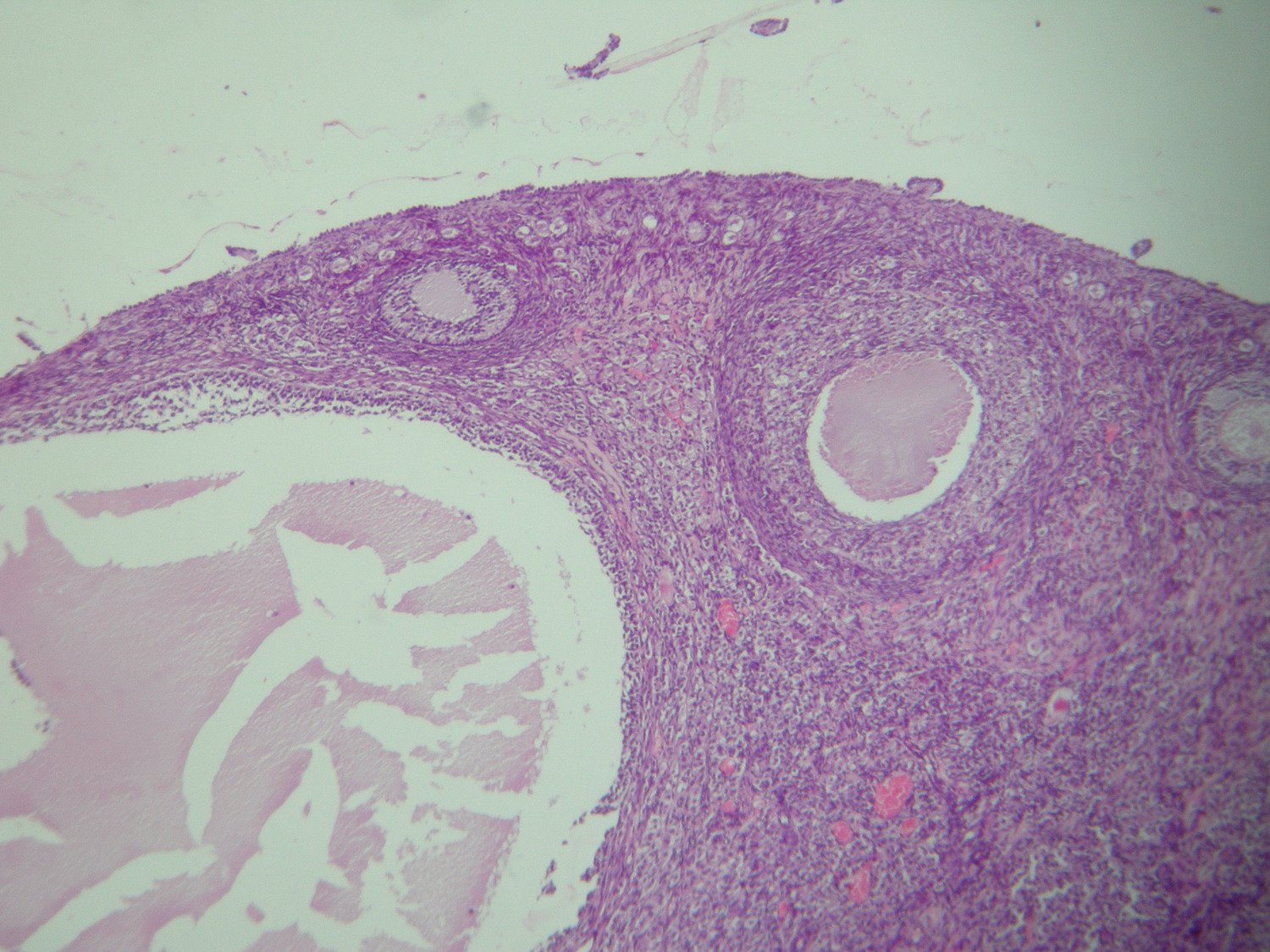 A rabbit ovary